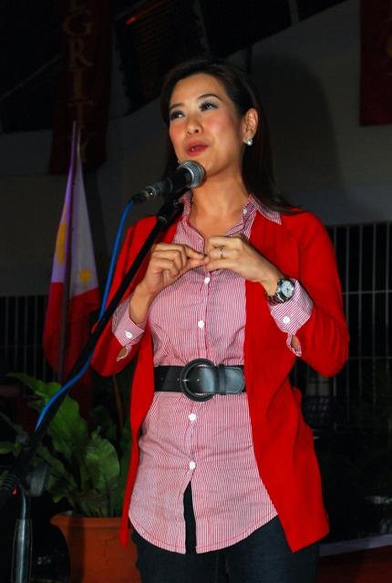 Hailed as Best TV Anchor in 9th Gawad Tanglaw